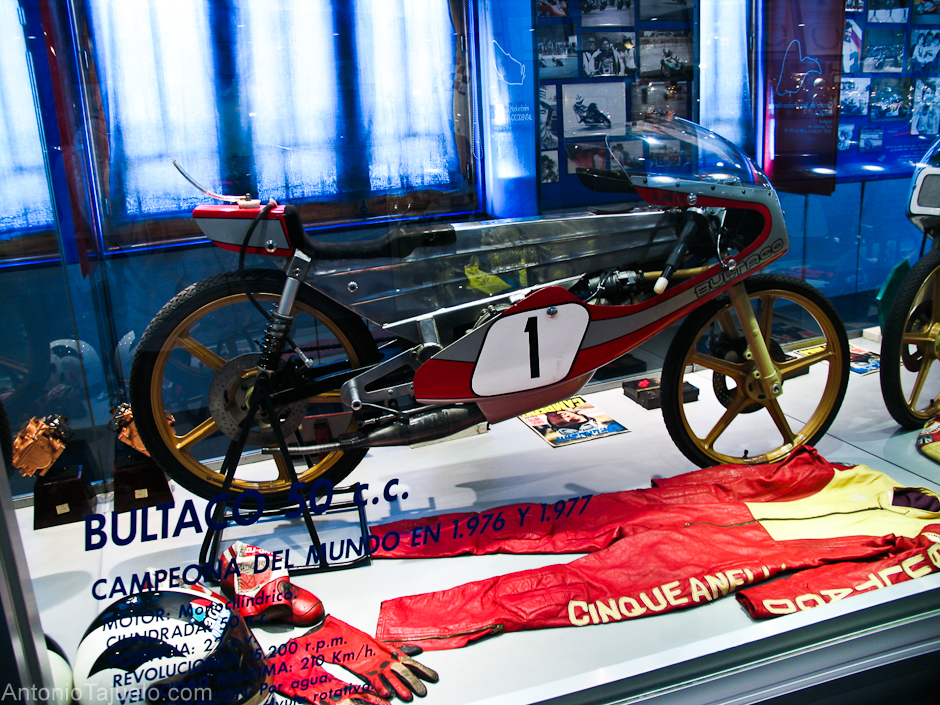 This TSS 50cc won the World Championship in 1976 and 1977 (Angel Nieto)